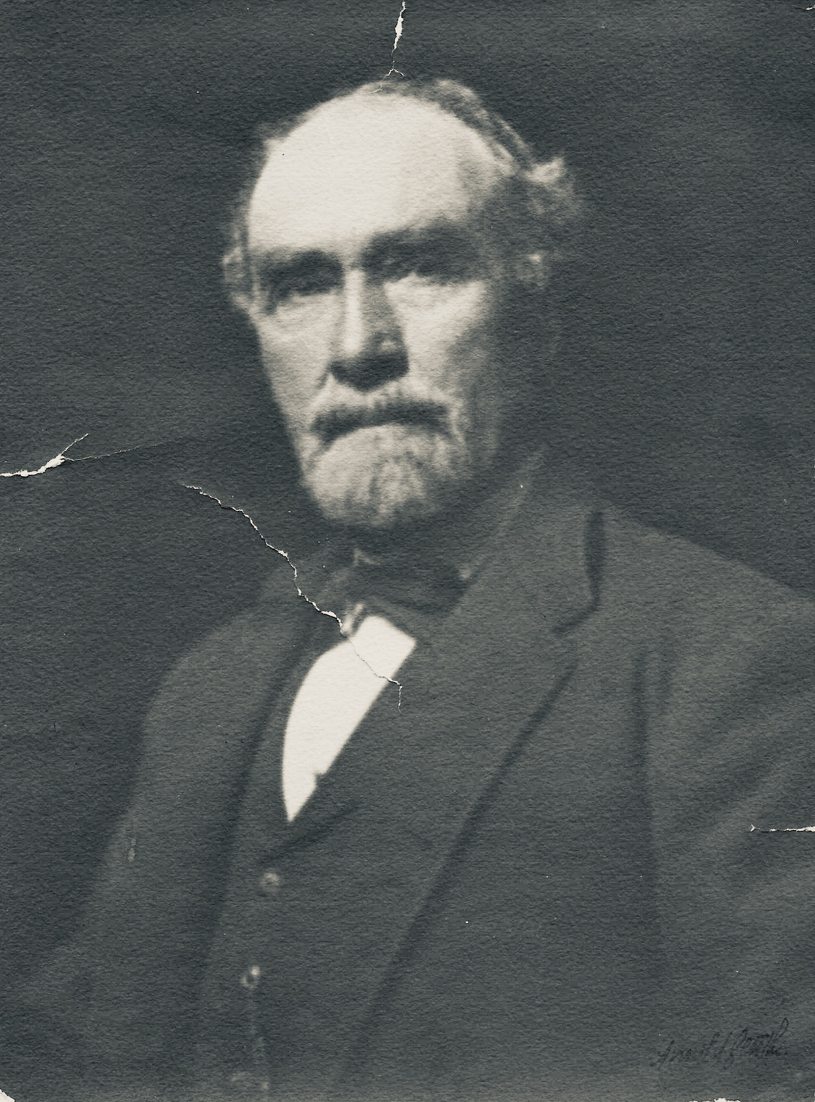 This is a portrait of William Helm taken around 1910, possibly by Arnold Genthe a San Francico artist.